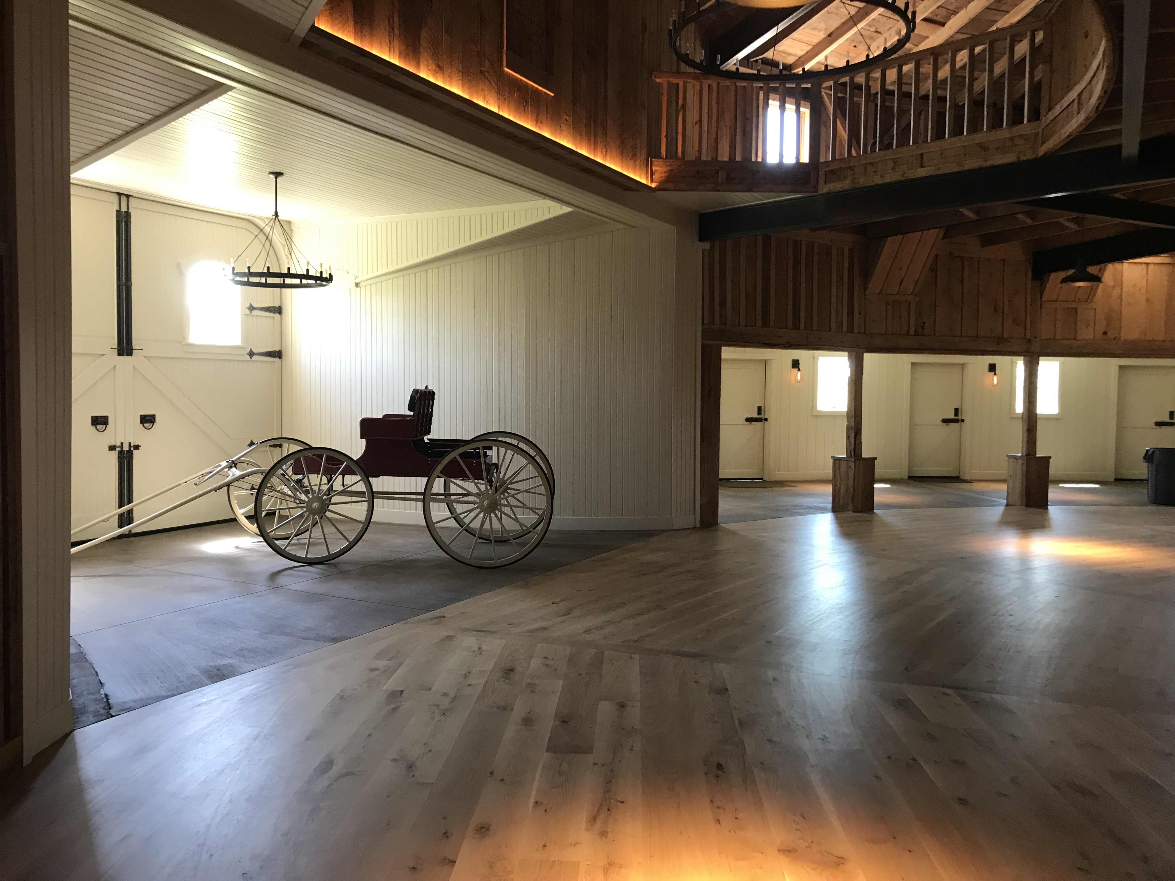 Doncaster Round Barn, main door interior, including historic carriage. Large door allowed a wagon and team to enter the barn. Smaller doors were once used for outdoor access to and from stalls holding individual horses, (walls separating stalls have subsequently been removed). When opened, the smaller doors allowed the animals to go in and out at will into individual paddocks outside . Stablehands accessed Horses from the inside when horses were housed in the barn. NRHP building in Twin Bridges, Montana